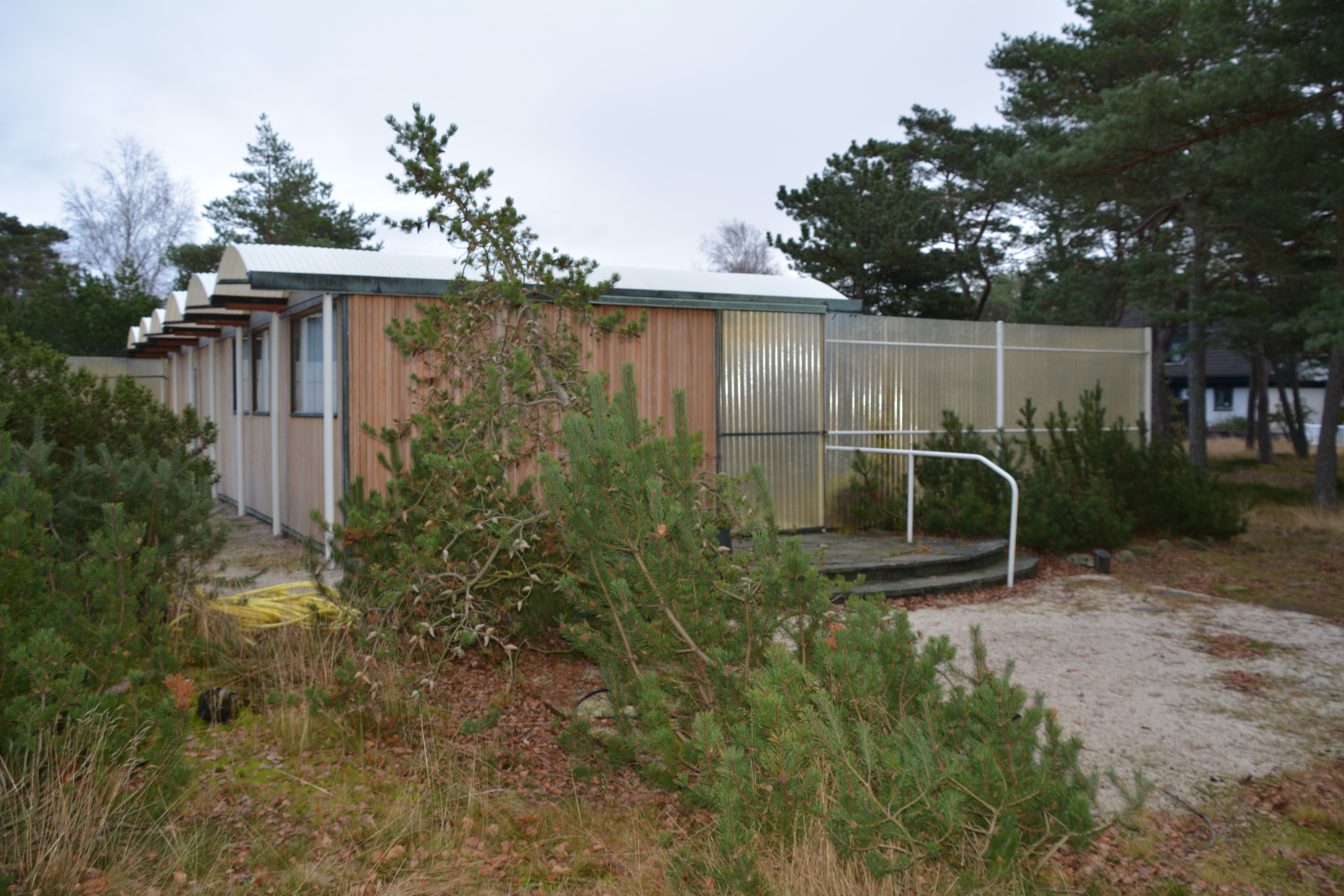 Bruno Mathsson's summer cottage in Frösakull, Halmstad Community, Sweden